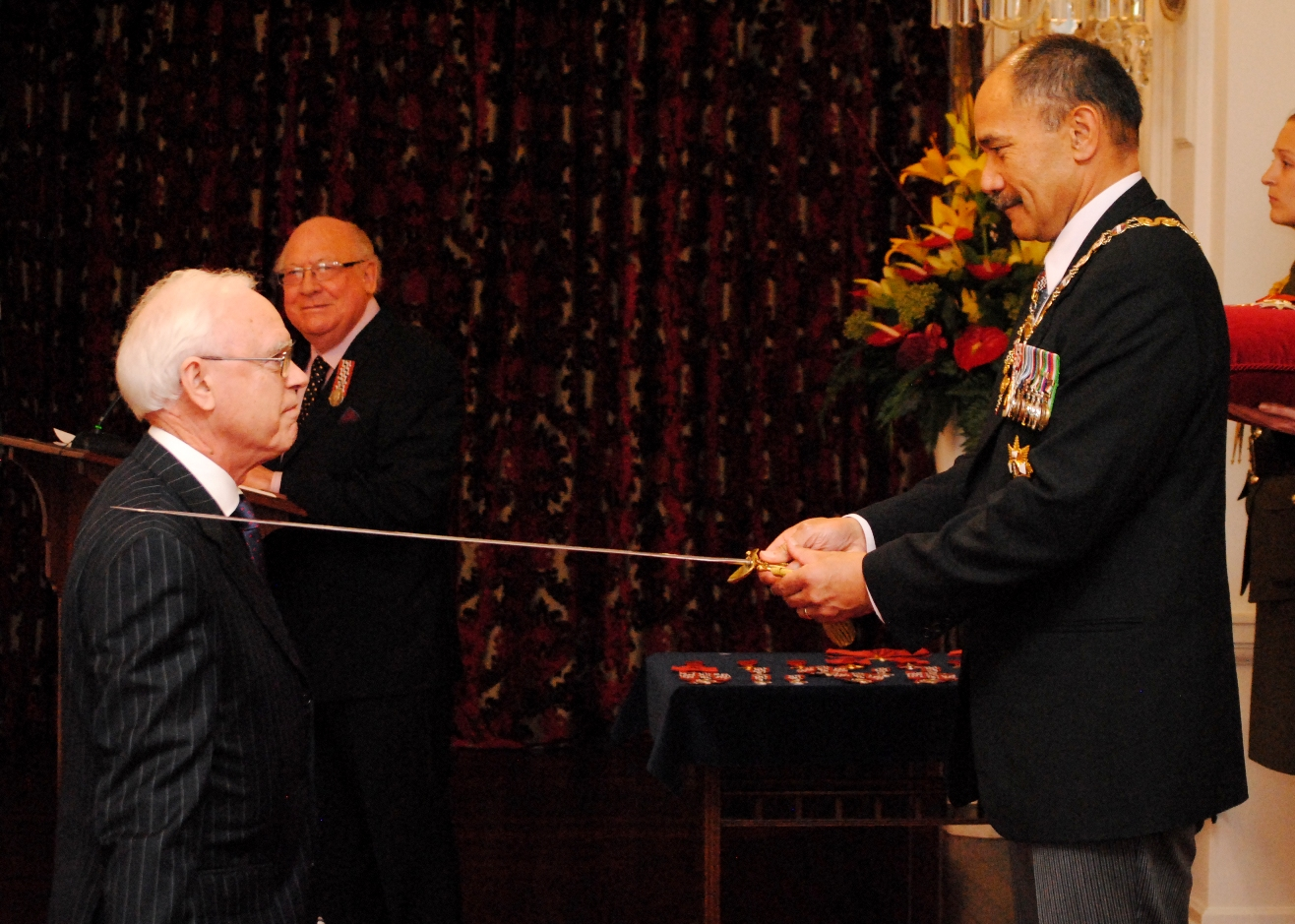 Investiture of Sir Roderick Deane as KNZM, for services to business and the community, by the governor-general, Sir Jerry Mateparae, on 6 September 2012